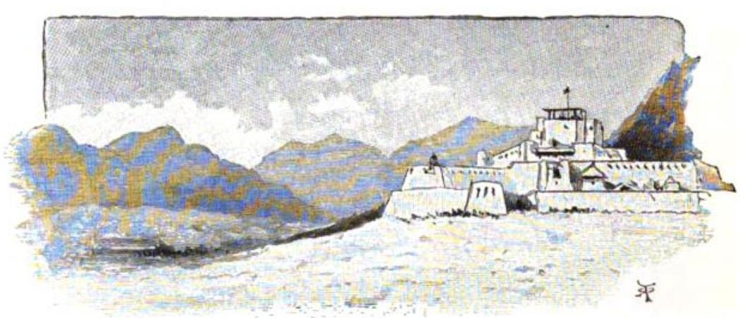 Fort Jamrud